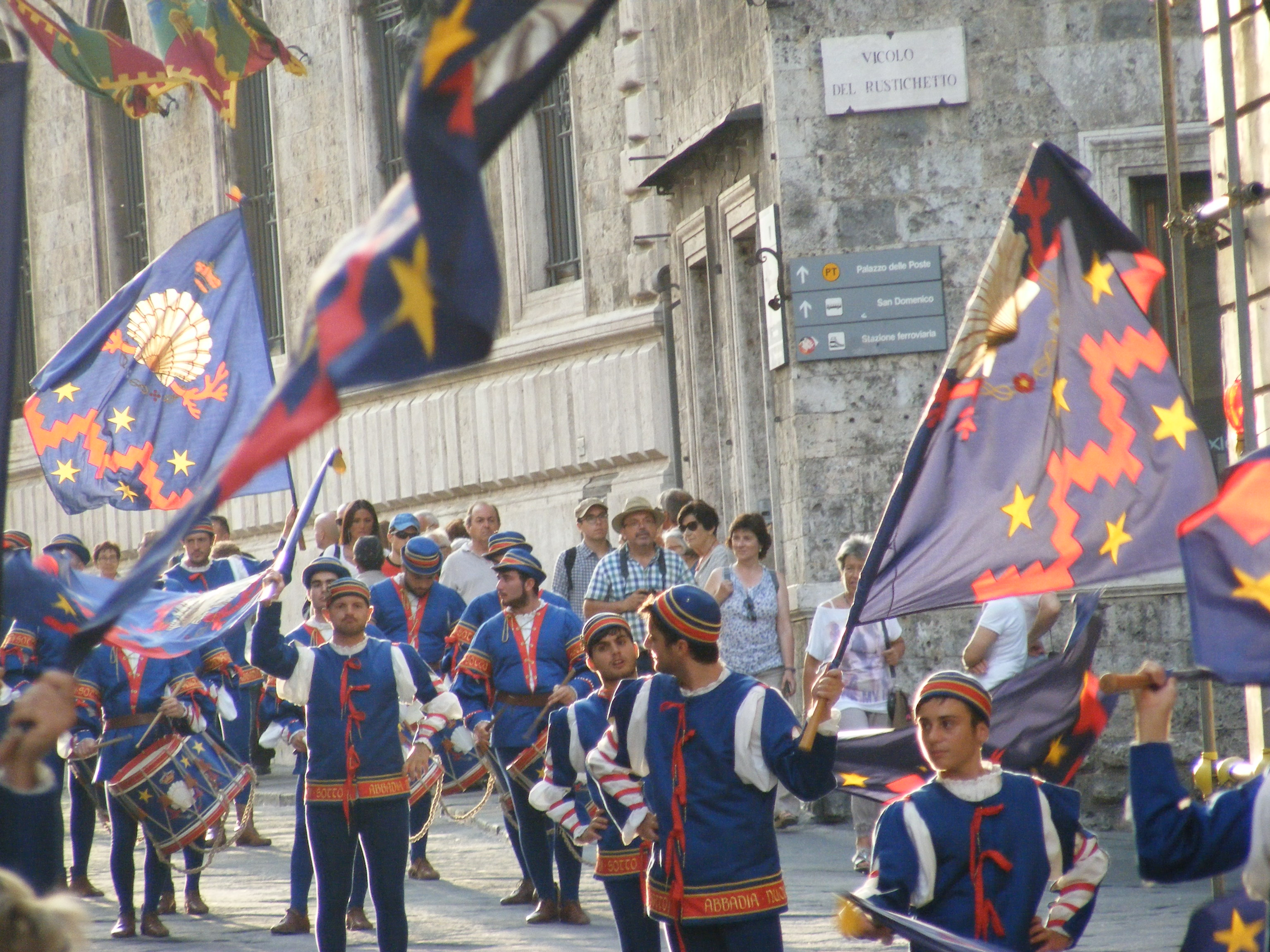 Siena, Italy: Parade of contrada "Nicchio" (